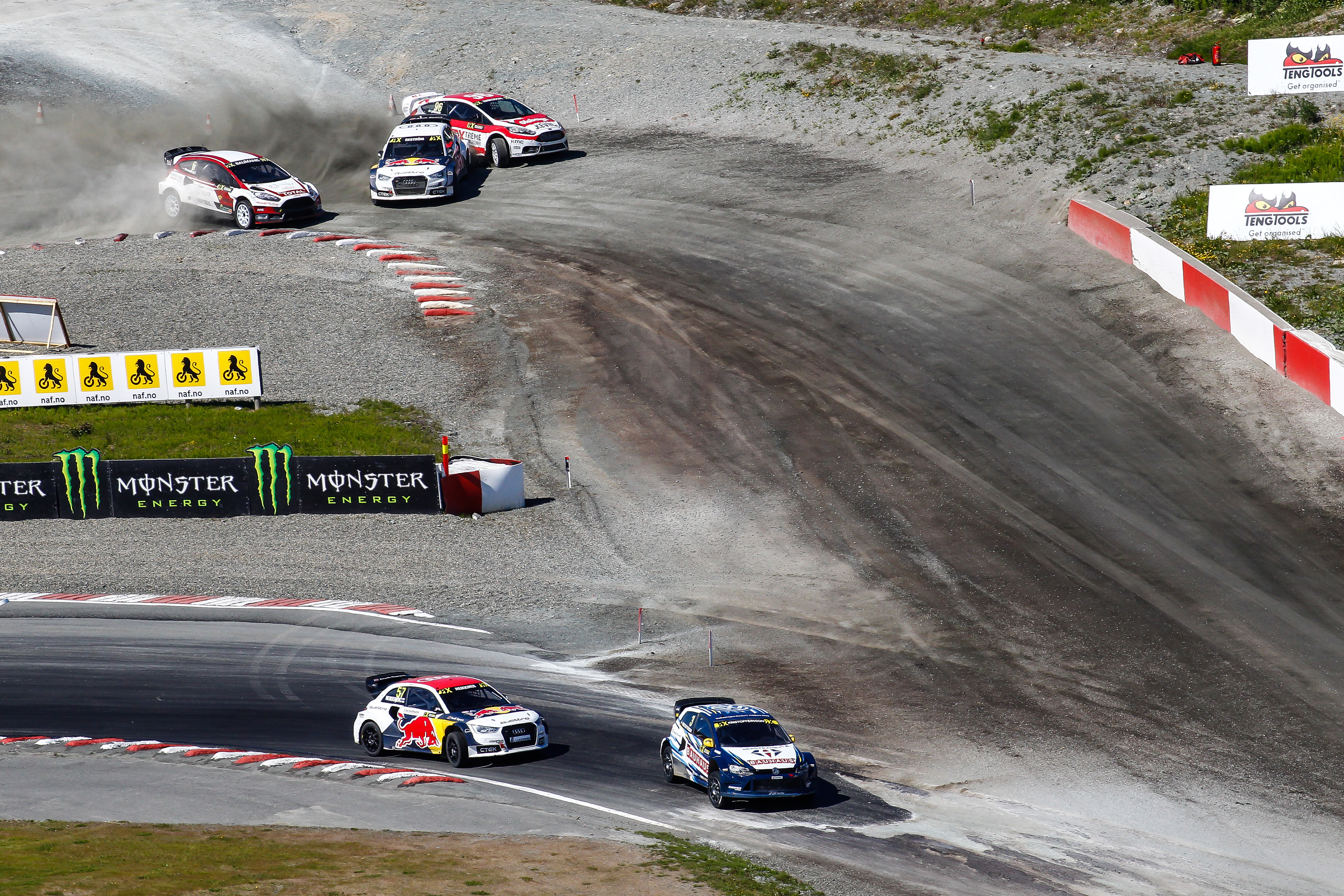 2016 FIA World Rallycross Championship / Round 05, Hell, Norway / June 10-12 2016 // Worldwide Copyright: Colin McMaster/EKS/McKlein